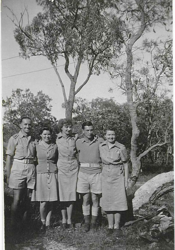 A group of men and women in the Australian Army stand in front of the bushland typical of Bibra Lake and surrounds.